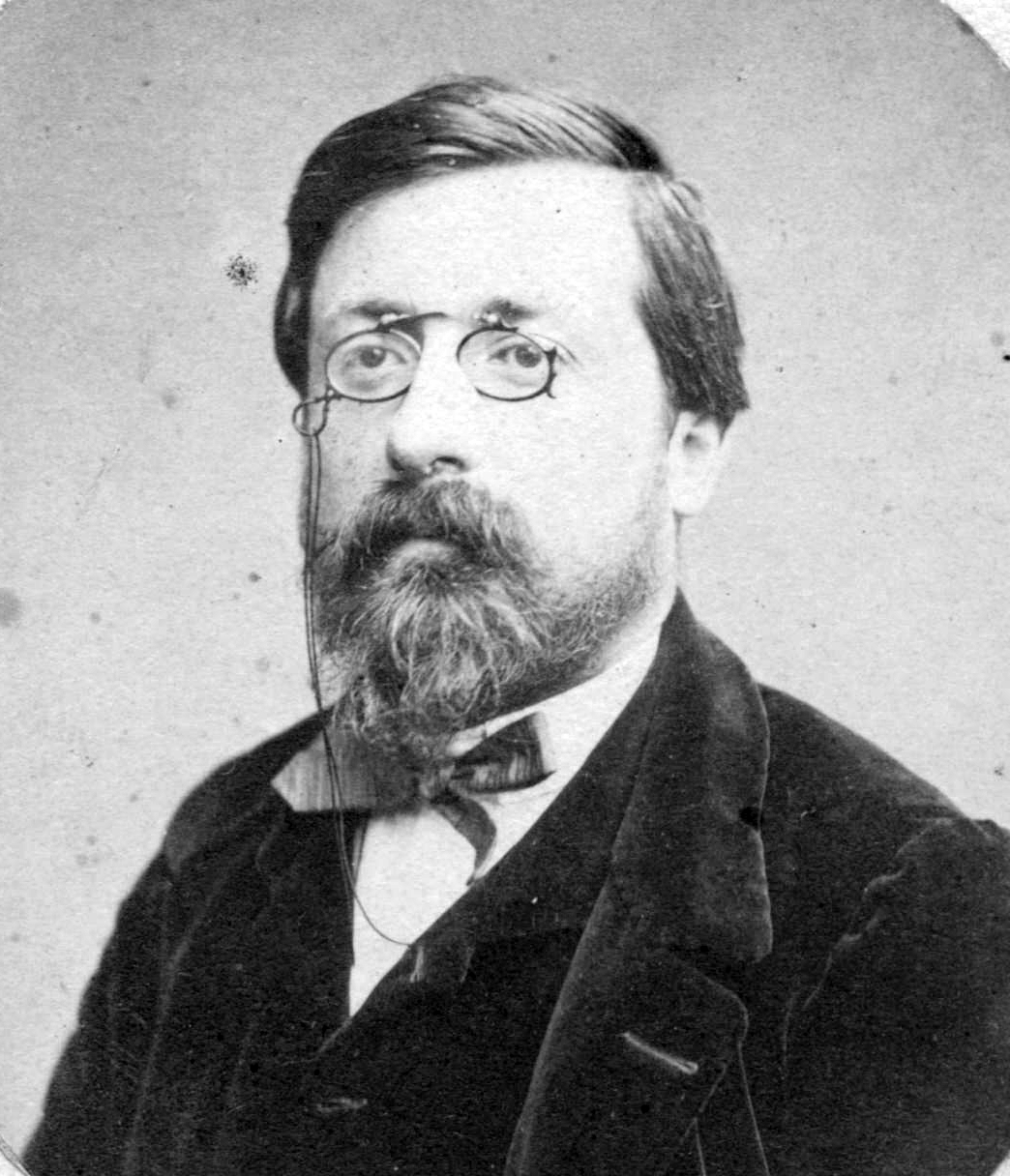 Hippolyte Cocheris (1829-1882), historian and librarian at the Bibliothèque Mazarine